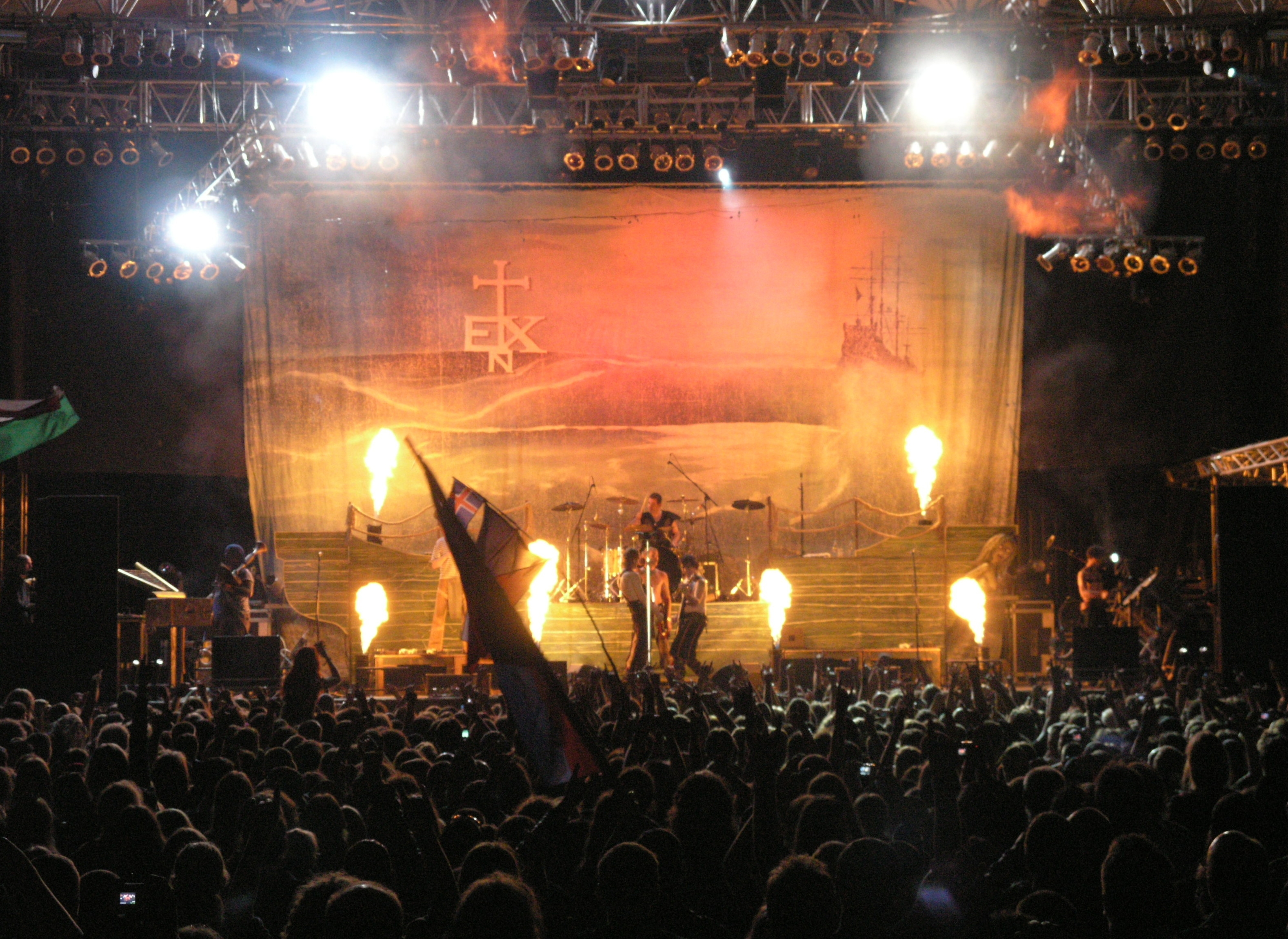 Music band In Extremo during Masters of Rock 2007 festival